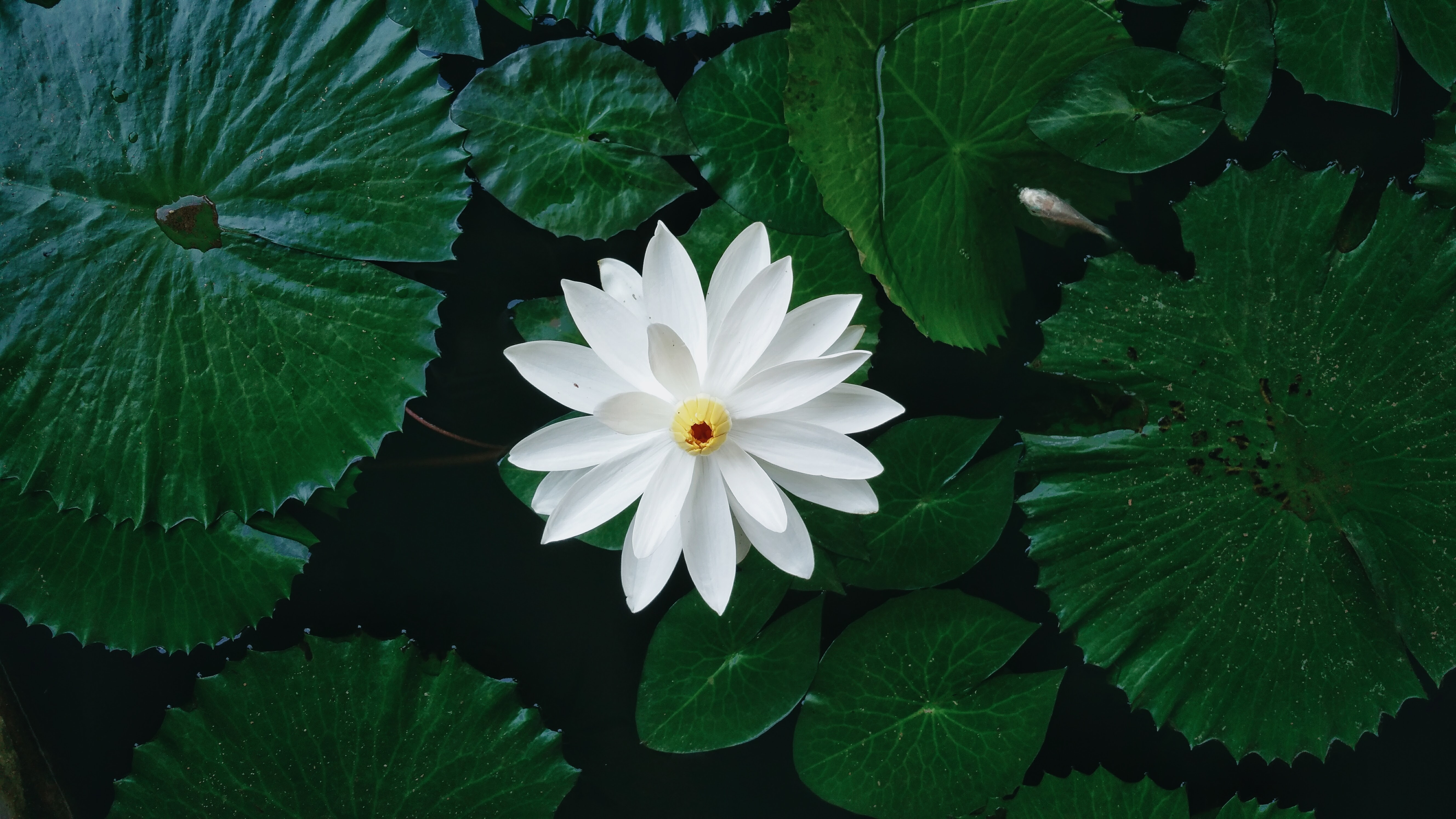 Nymphaea lotus in Southern India.